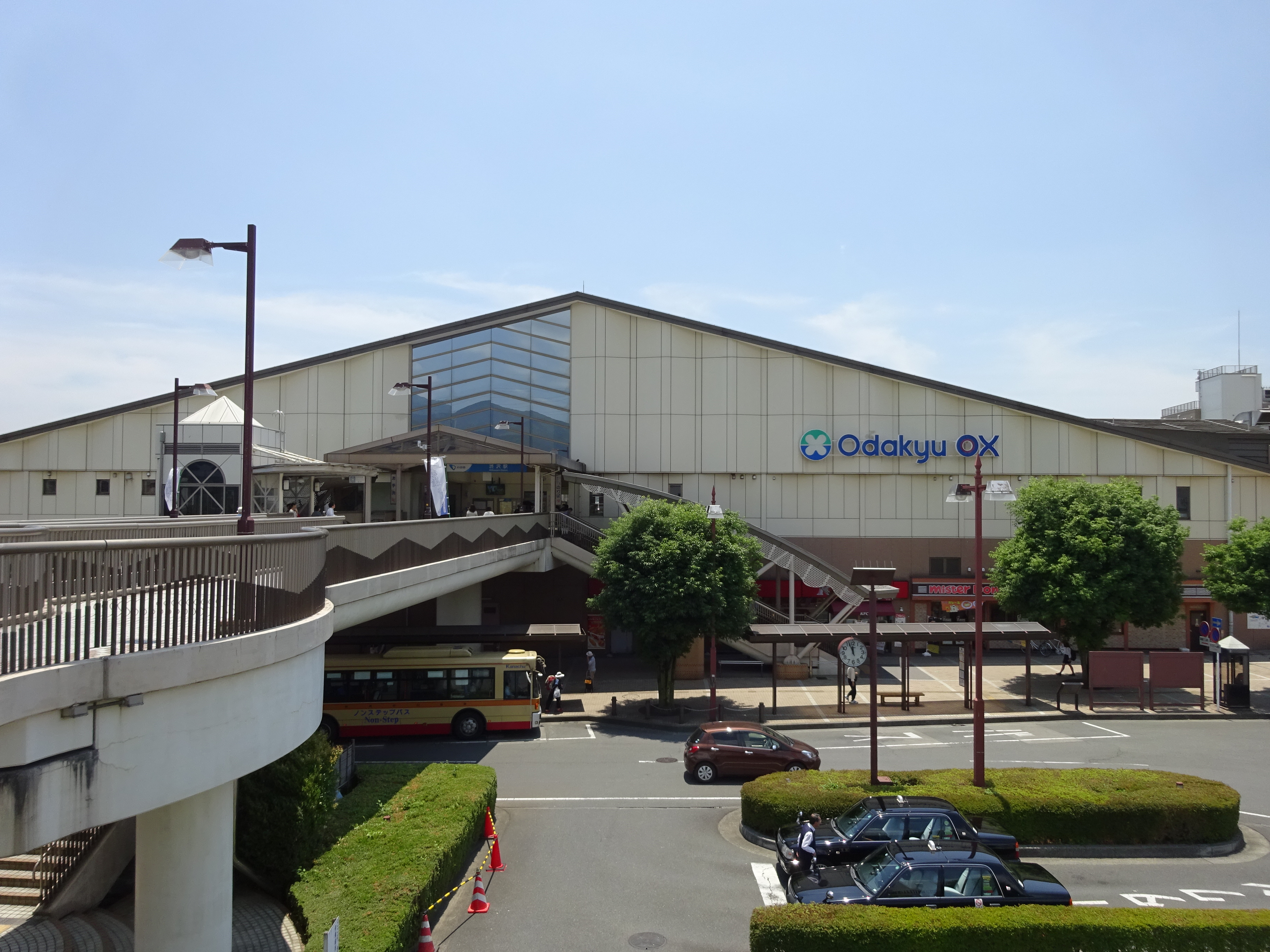 North entrance of Shibusawa Station